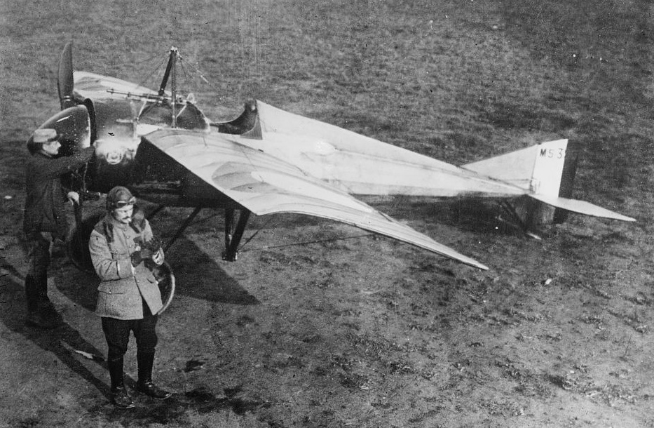 Jules Vedrines and one of his Morane-Saulnier N fighters